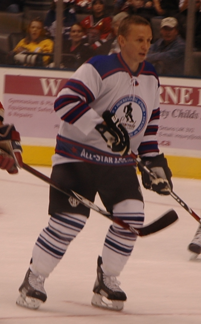 Igor Larionov played with the All-Star Legends 2008 in Toronto